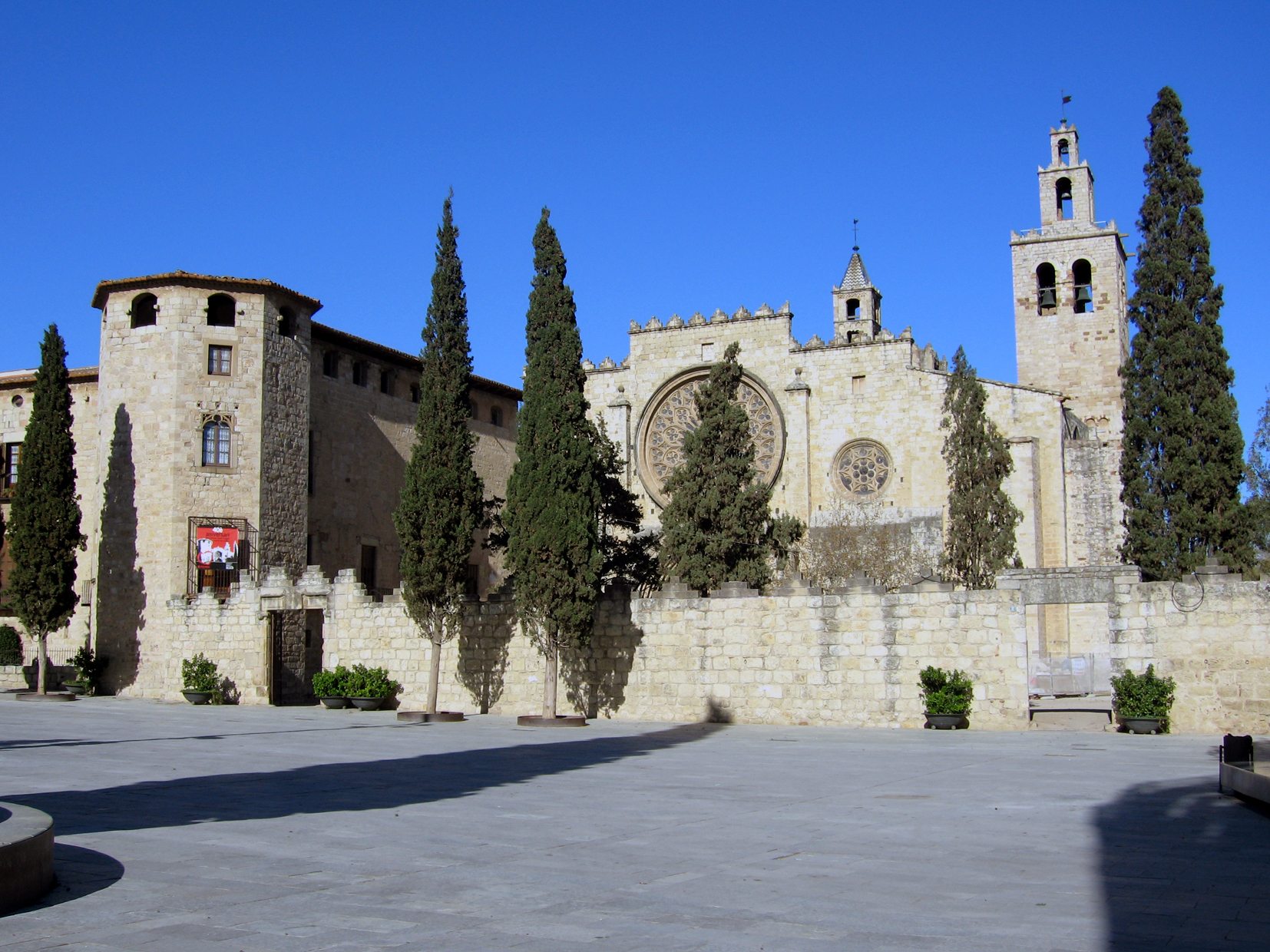 Monastery of Sant Cugat del Vallès (Catalonia).